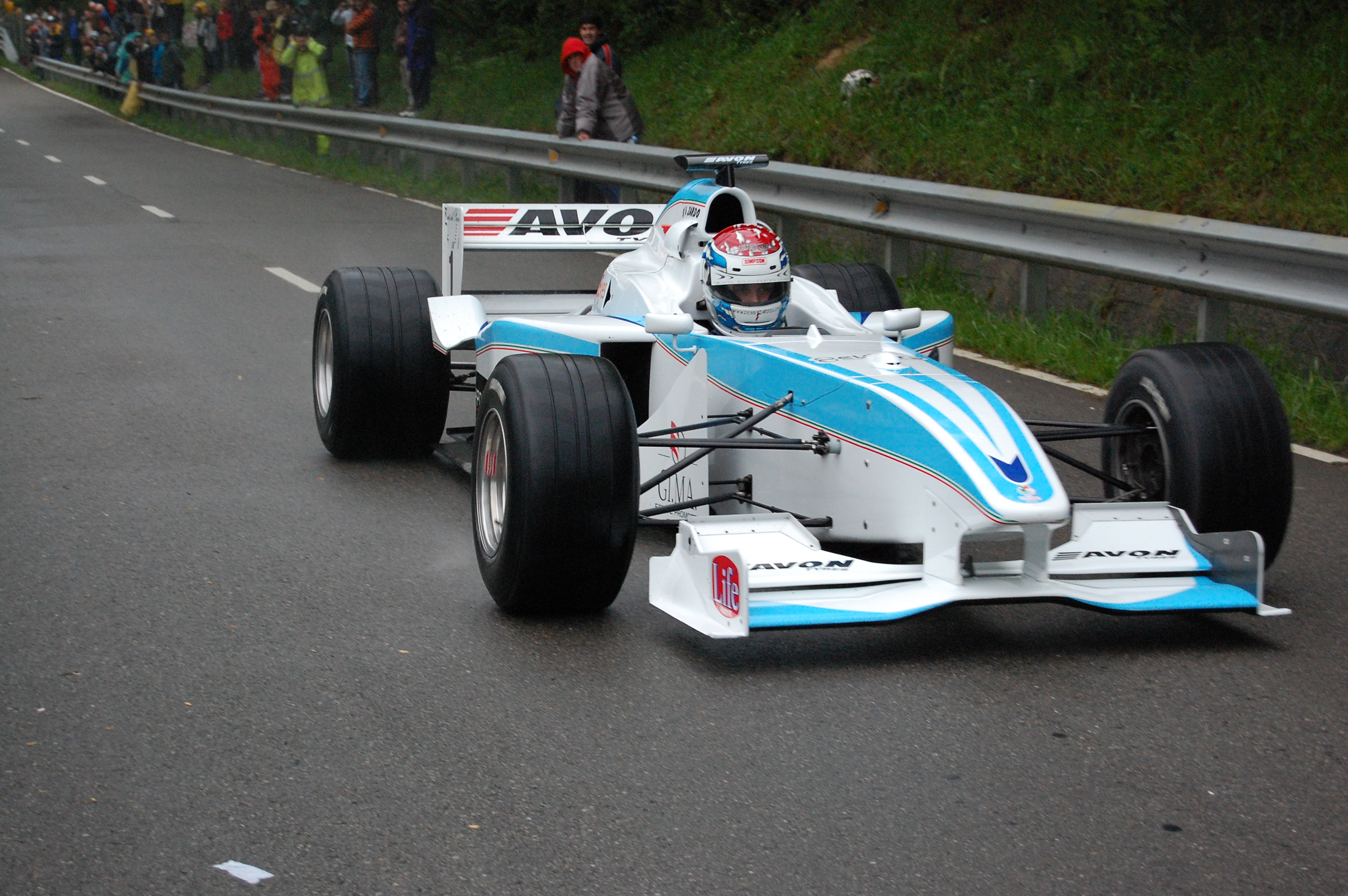 Denny Zardo. Fito Hillclimb 2008. European Hillclimb Championship